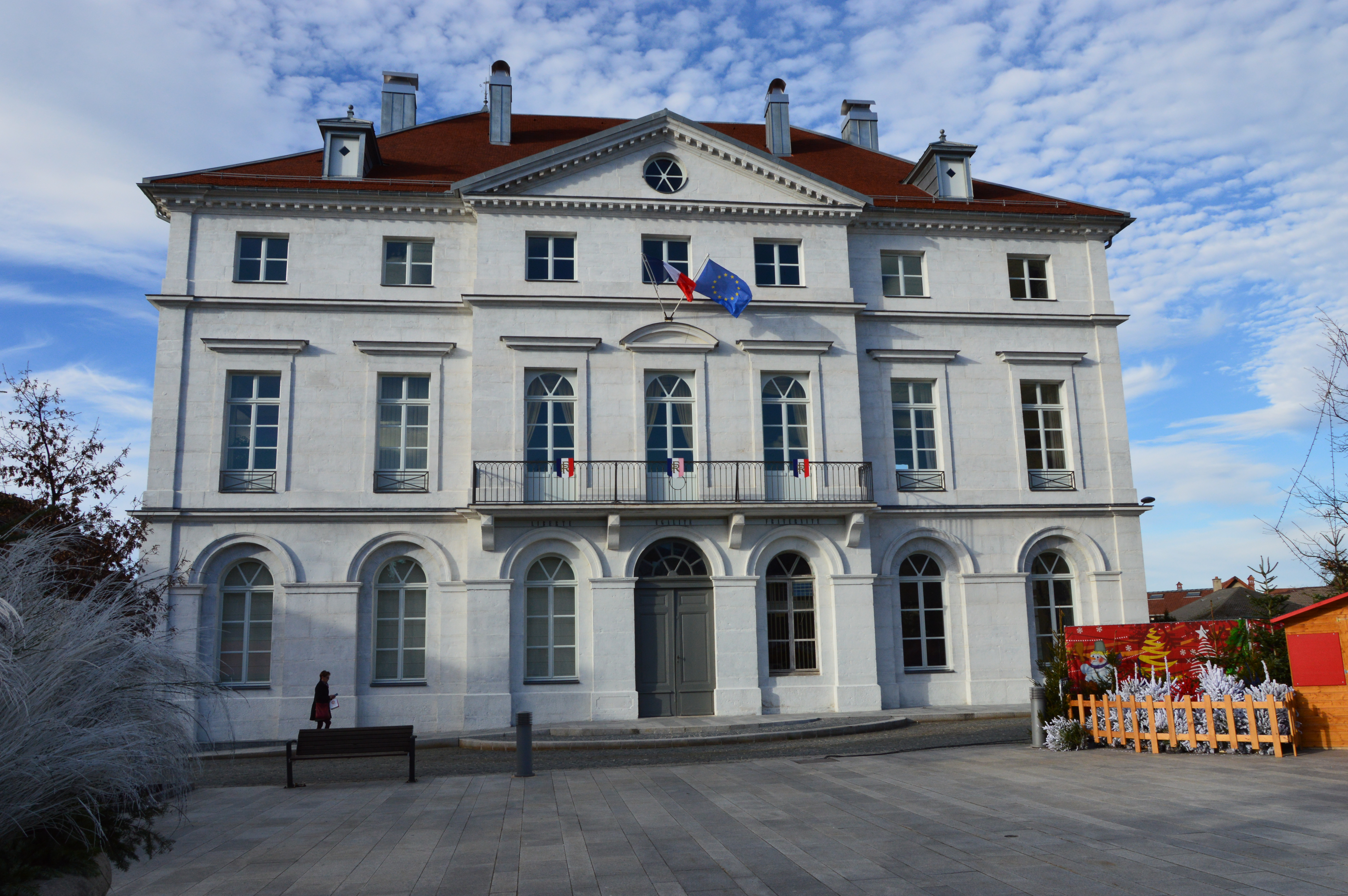 Champagnole town hall. After renovation 2012